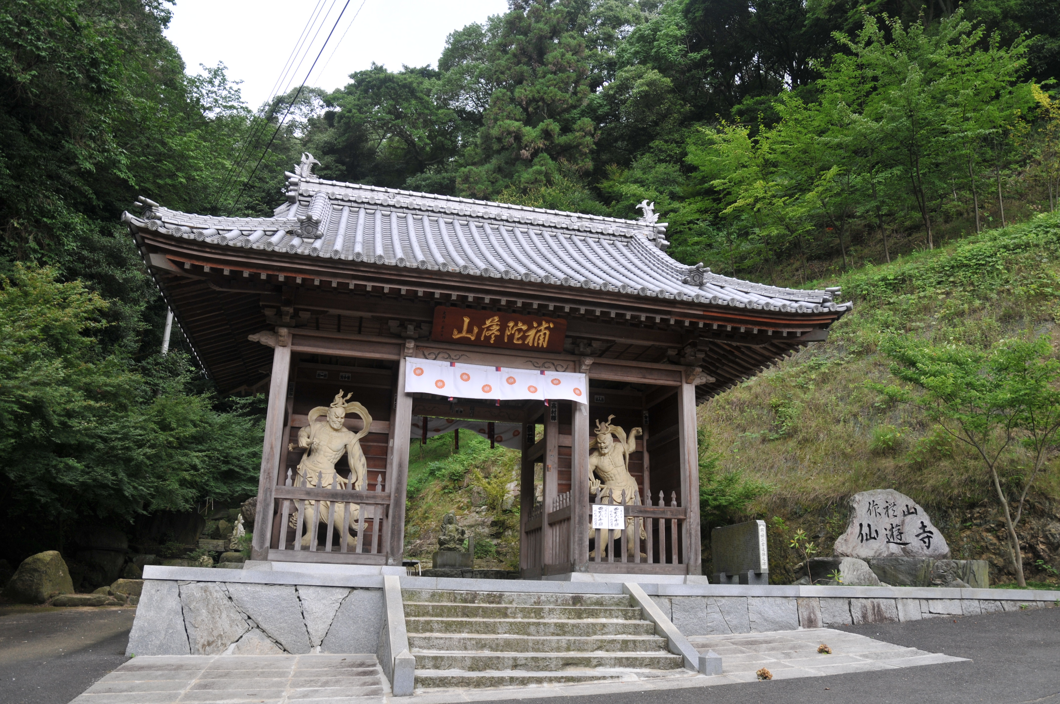 Temple gate, Sen'yū-ji